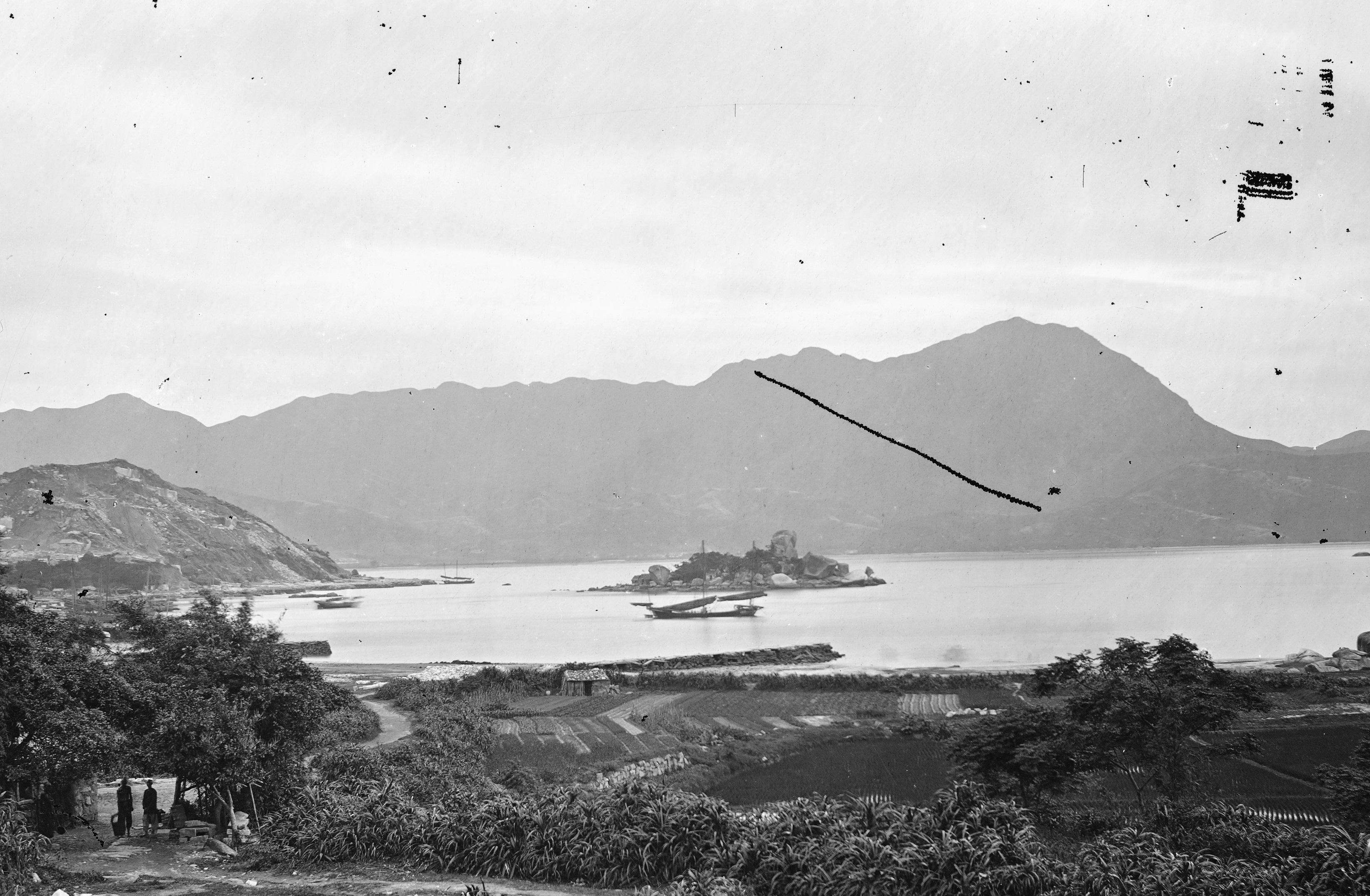 Hoi Sham Island viewed from Kowloon Peninsula, with Kowloon Peak in the background.